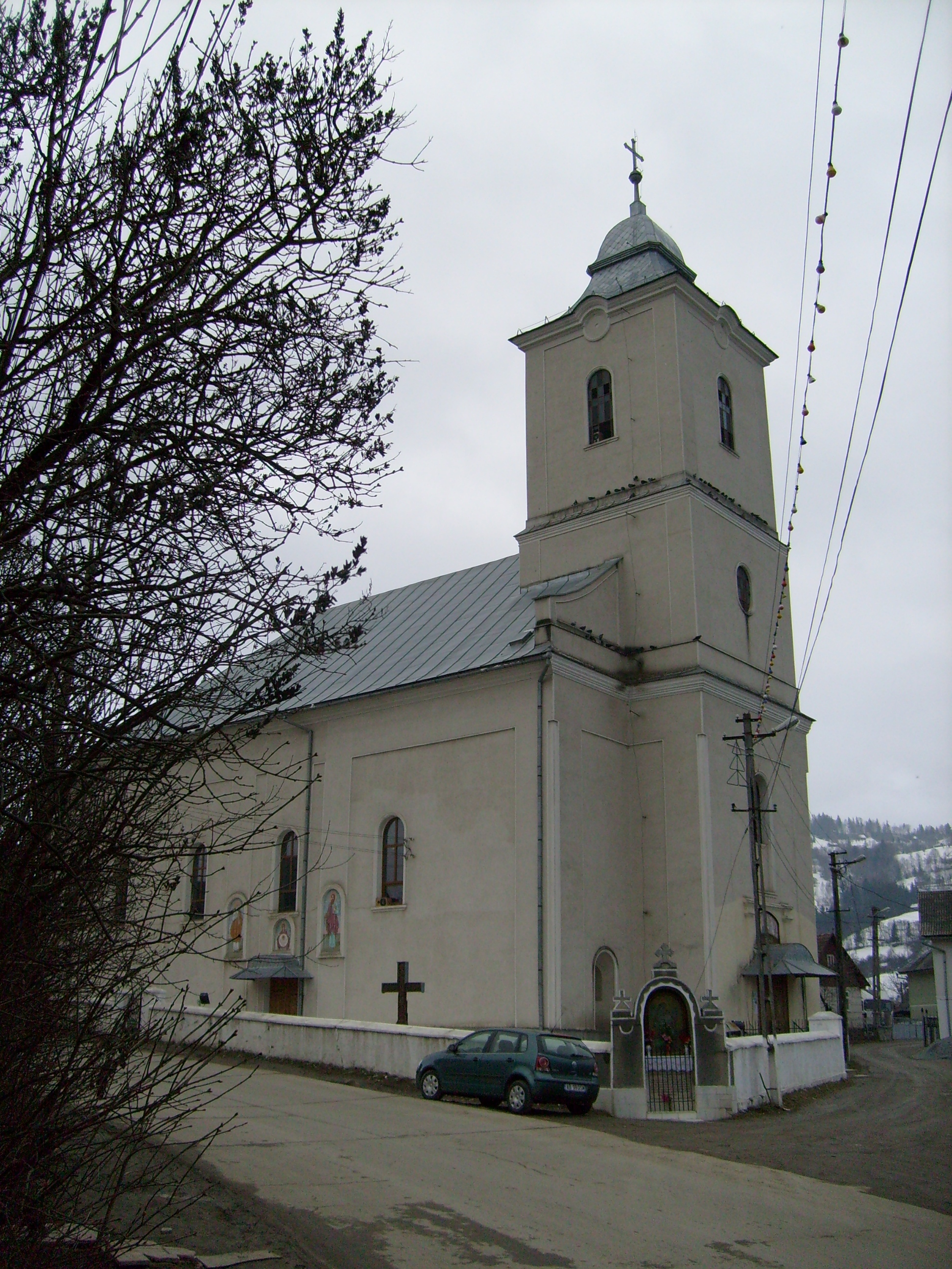 Church of Bistra.